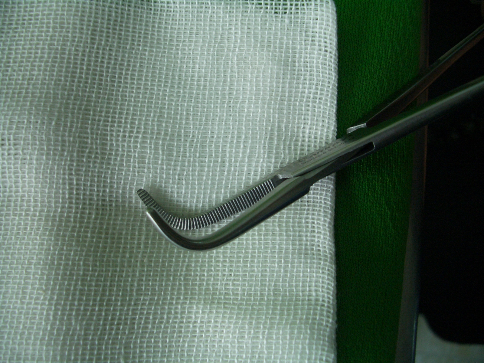 The right angle clamp, is a surgical instrument used primarily by general, vascular, and cardiothoracic surgeons, as well as in certain gynecological procedures. They come in a variety of lengths and sharpness of angle. The shape of the clamp is ideal for occluding blood vessels, assisting in dissection and passing sutures around structures.